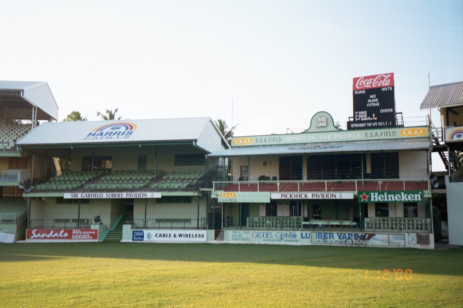 The former Sir Garfield Sobers, and Pickwick Pavilion stands at the Kensington Oval, Barbados.